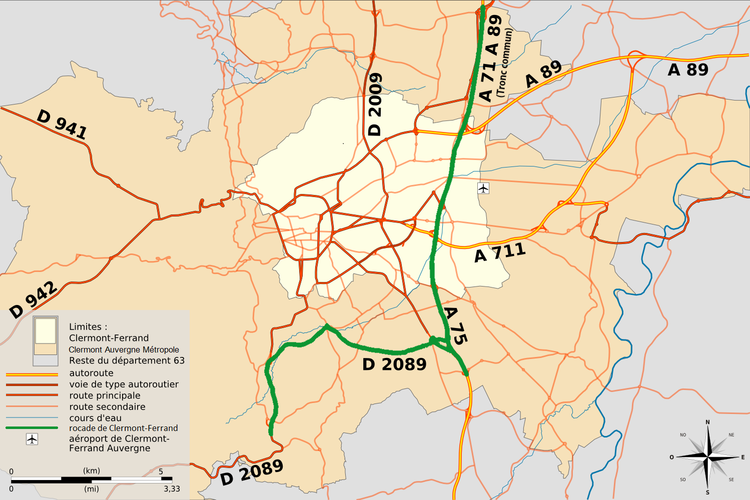 Map of Clermont-Ferrand's loop (in green).